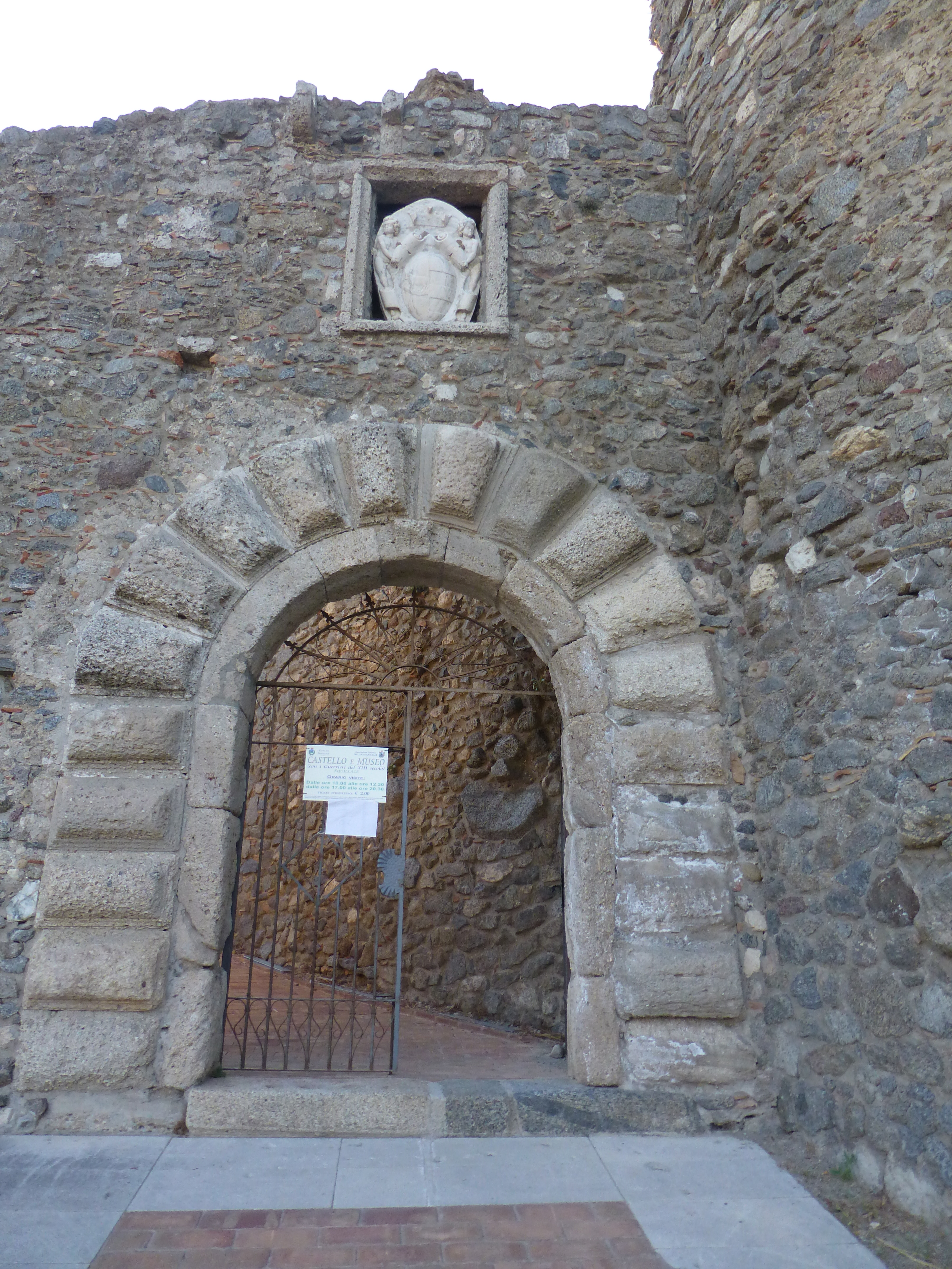 Castle of Squillace, Entrance